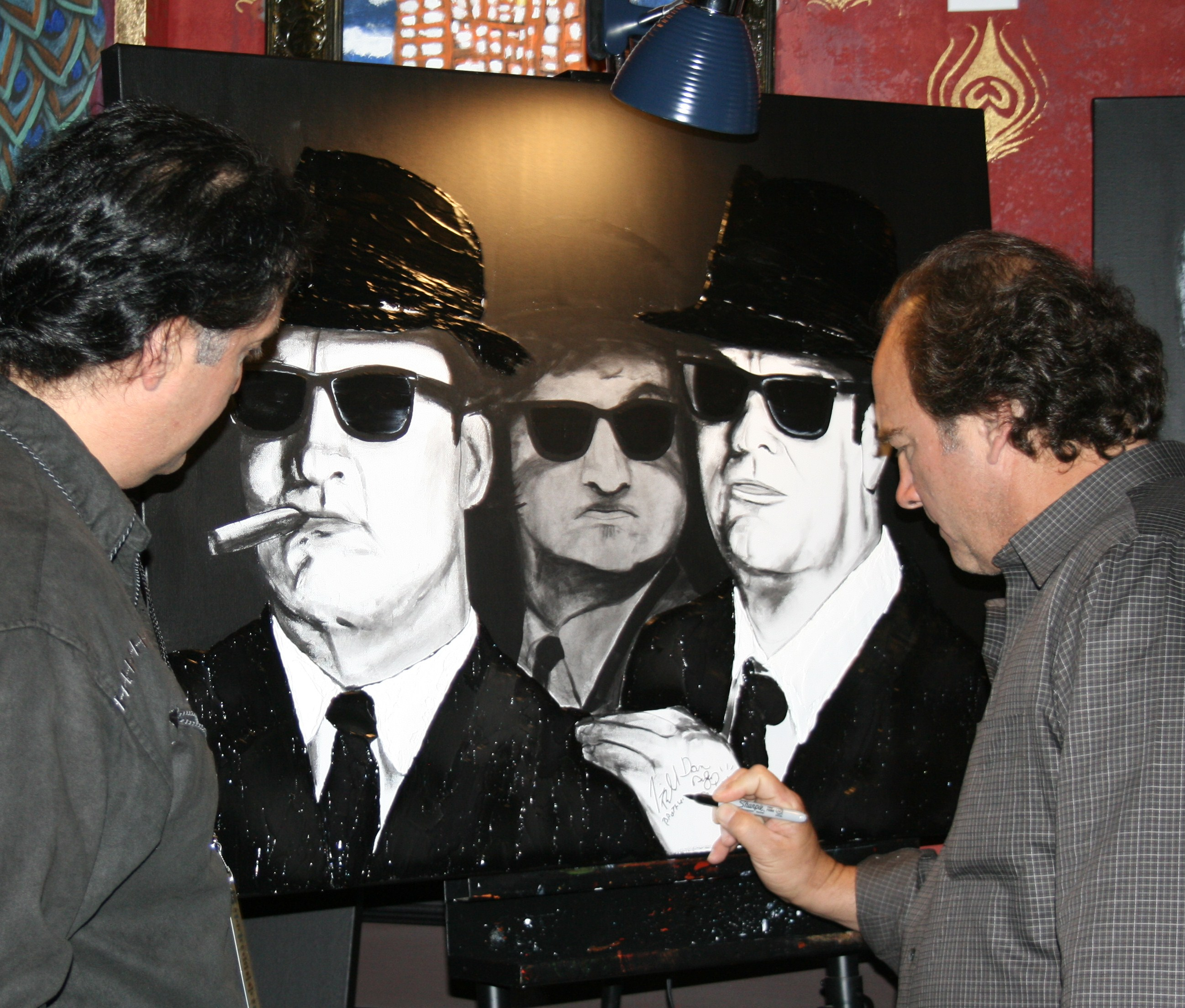 Nunez and Jim Belushi at HOB in Houston at the grand opening